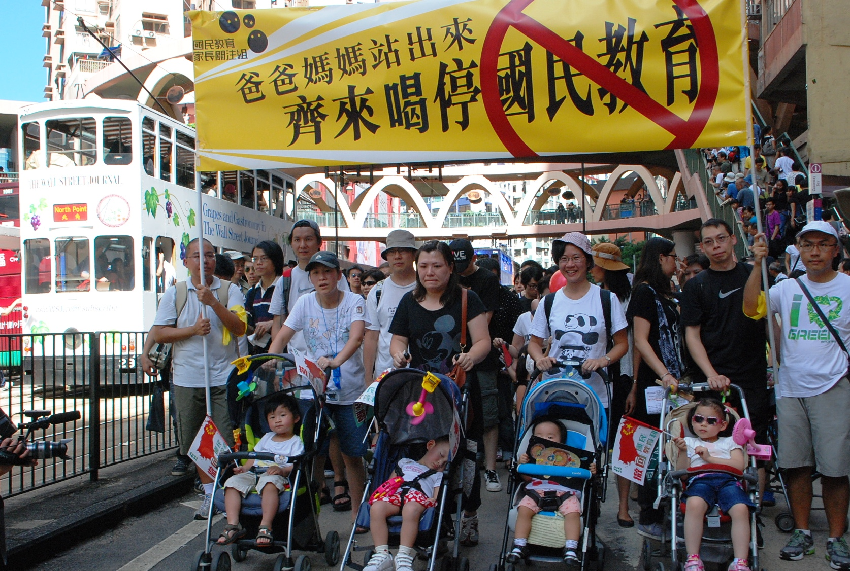 Citizens of Hong Kong protesting against the implementation of moral and national education.